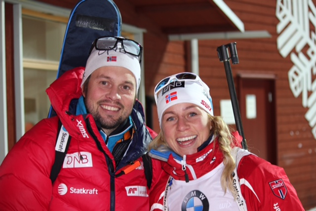 Norwegian national women's coach Stian Eckhoff and his sister, Norwegian biathlete Tiril Eckhoff.